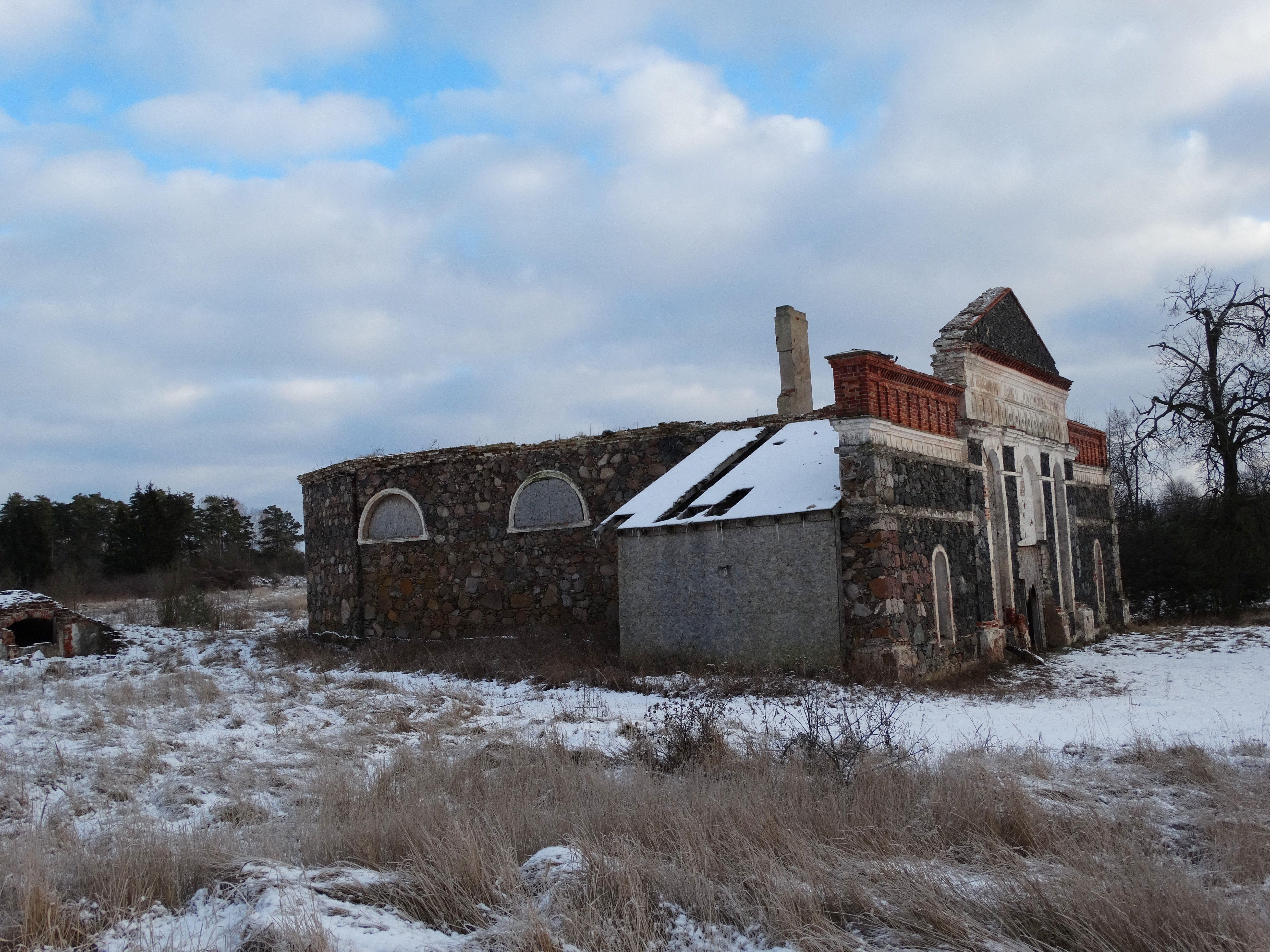 Chapel in Nevėžninkai, Panevėžys district, Lithuania